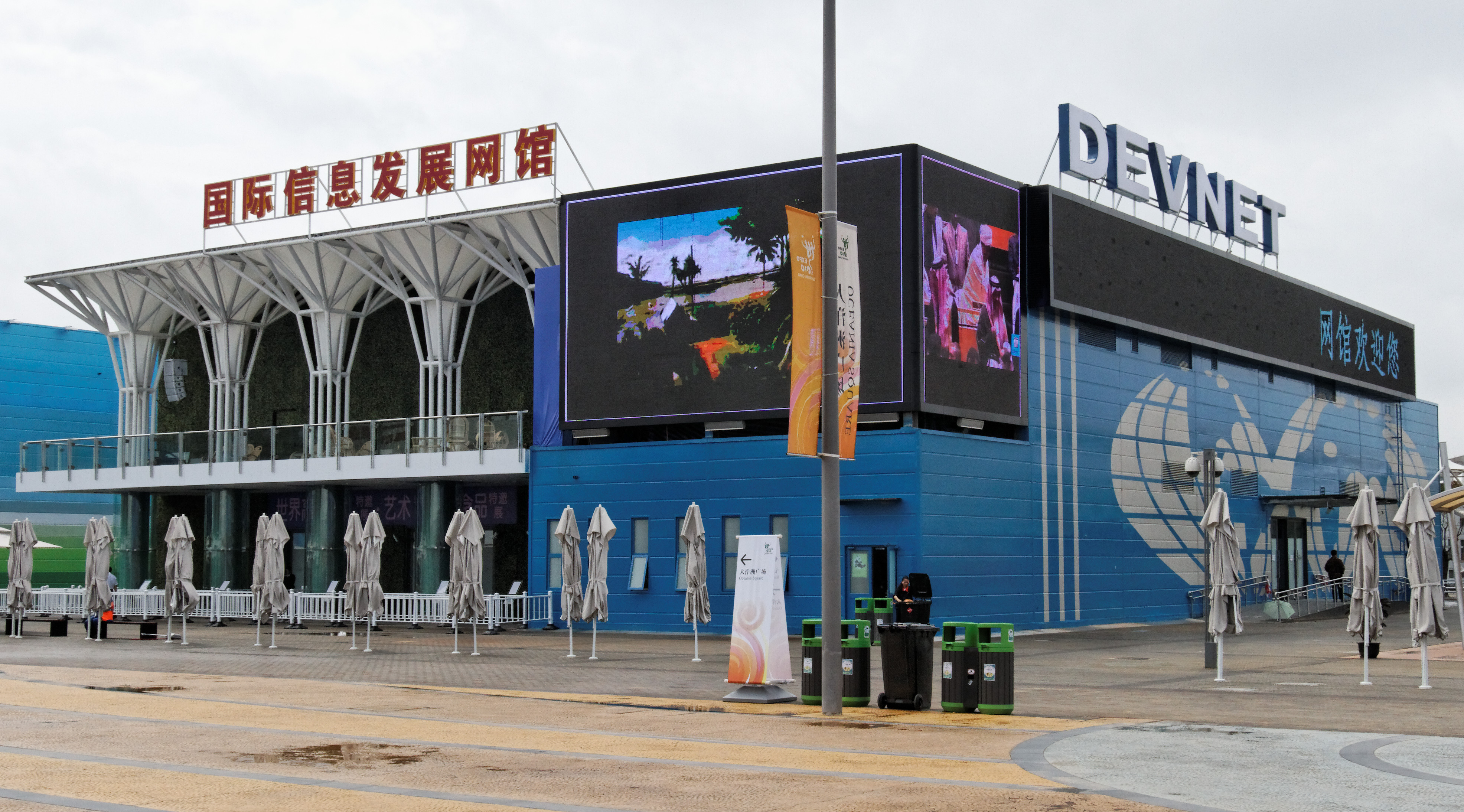 DEVNET Pavilion of Expo 2010